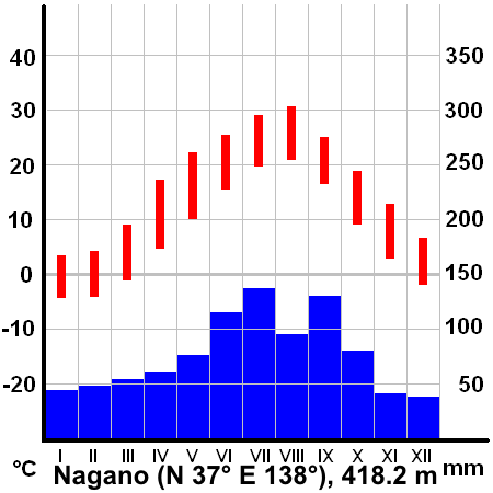 Climate diagram of Nagano, Japan. Map based Image:ClimateTemplate.PNG Source:JMA data